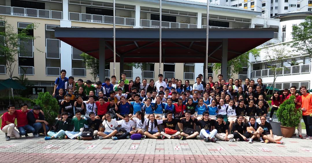 Group photo of Nan Chiau Youth Mentors (NCYM), taken 27 Feb 2016 at the Quadrangle.